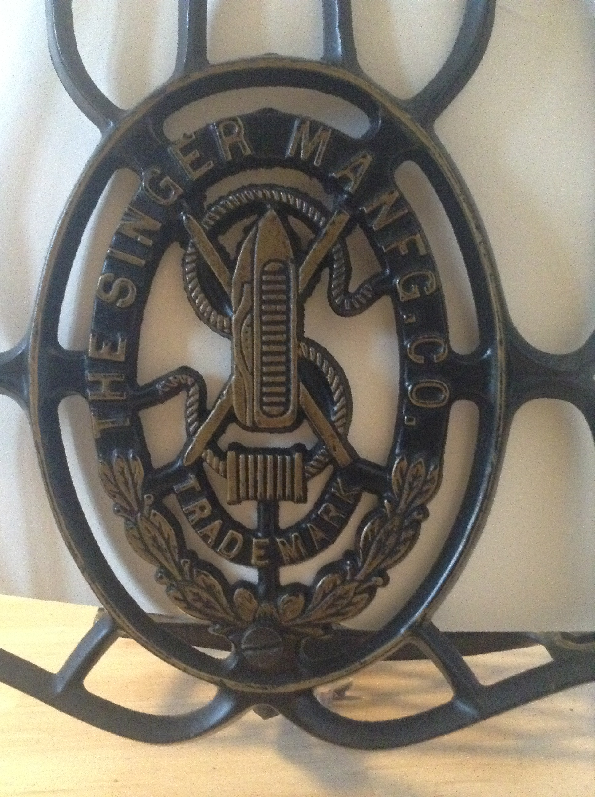 1853 Company logo of the former Singer Manufacturing Company